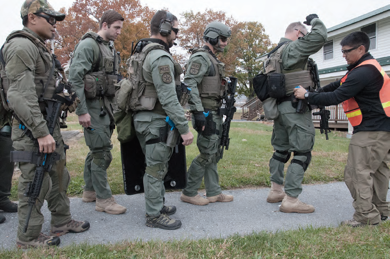 United States Marshals in full gear.